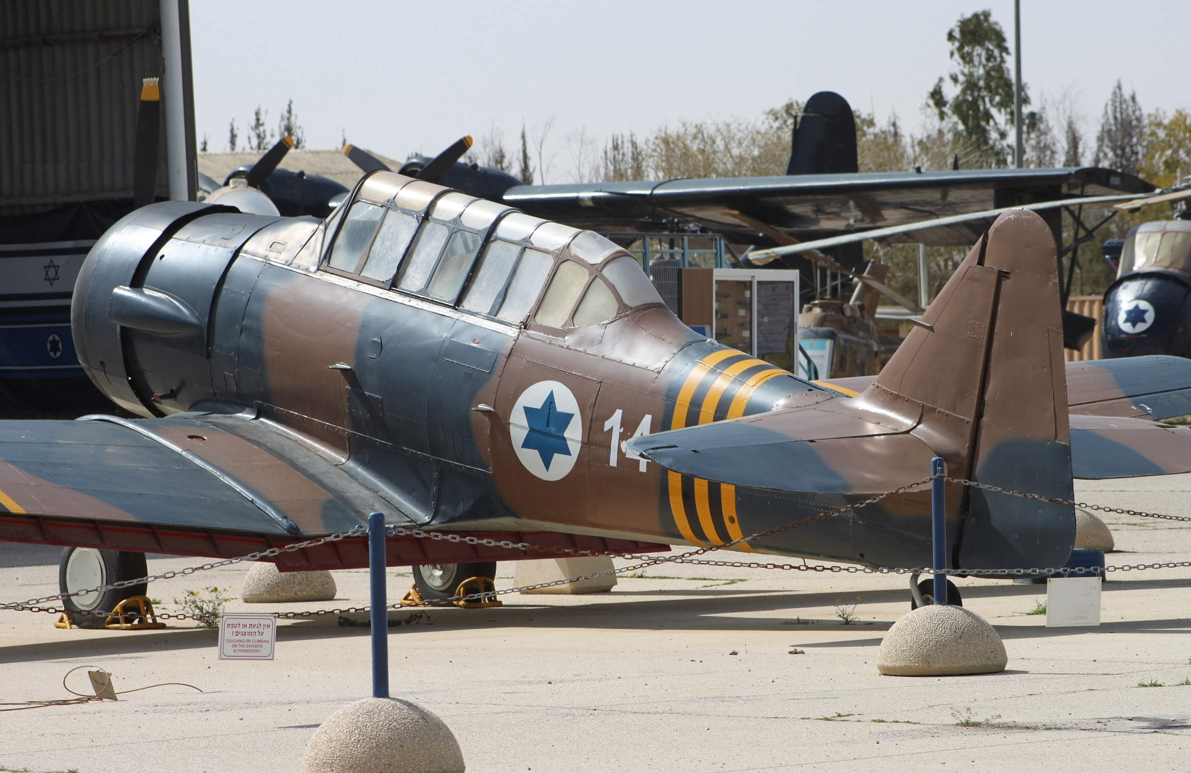 North American Harvard at the Israeli Air Force Musem in Hatzerim, February 22, 2012